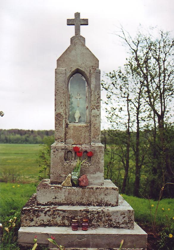 Šatraminiai cemetery, Skuodas district, Lithuania